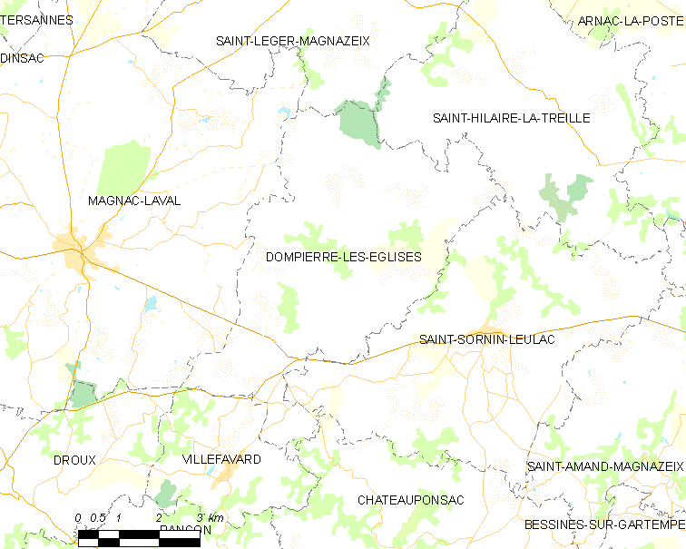 Map of French municipality Dompierre-les-Églises